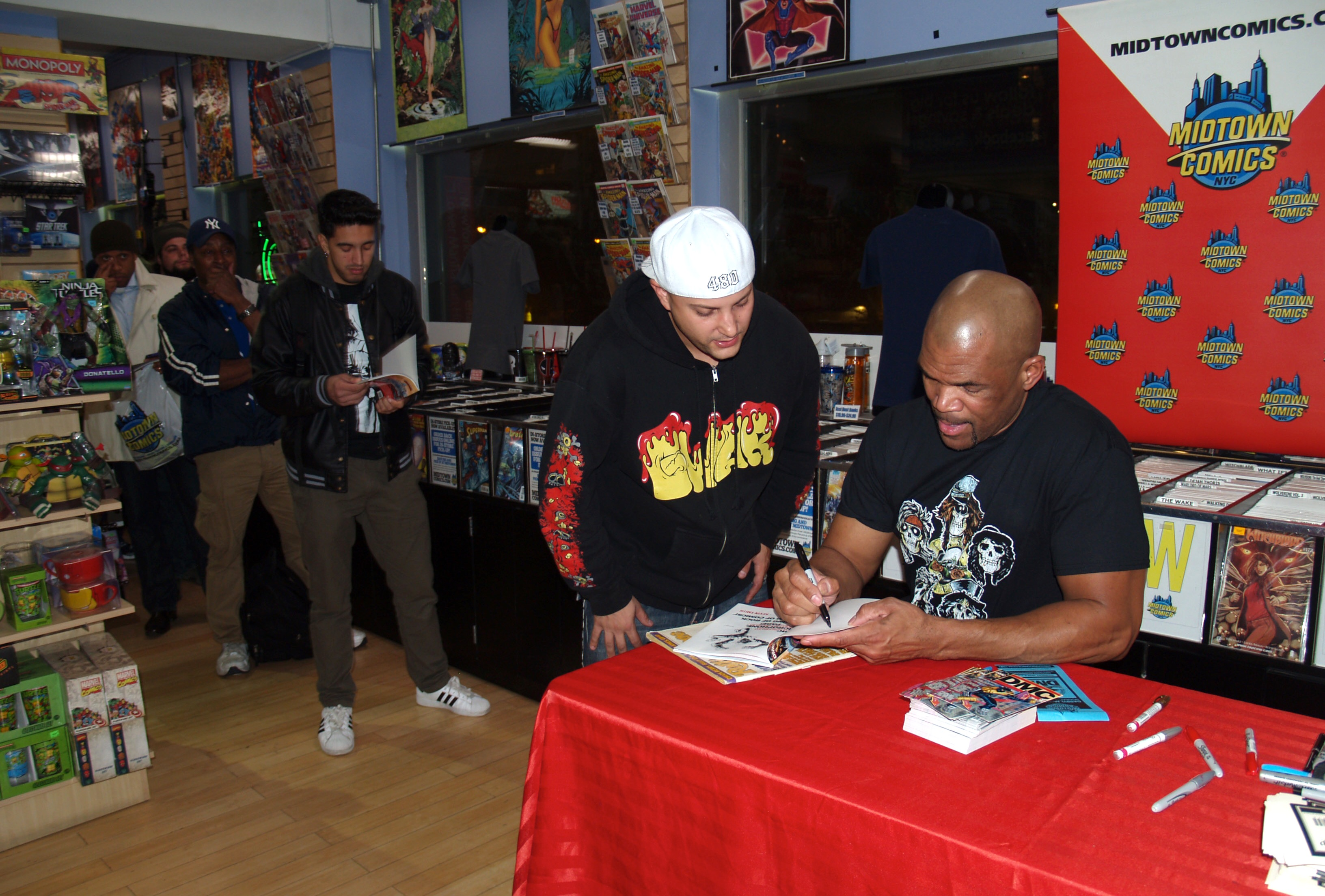 Hip-hop music artist Darryl "DMC" McDaniels (right) of Run–D.M.C., at a November 6, 2014 book signing at Midtown Comics Downtown in Manhattan for his comic book, DMC #1, published by his company, Darryl Makes Comics. This photo was created by Luigi Novi. It is not in the public domain, and use of this file outside of the licensing terms is a copyright violation.